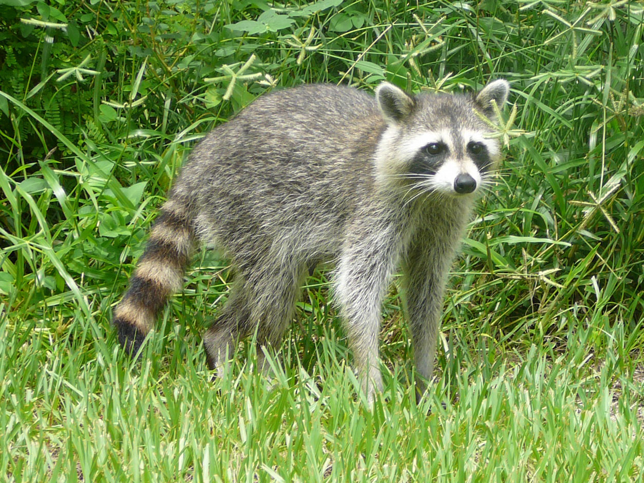 Common raccoon, Birch State Park, Fort Lauderdale Florida, 3 September 2006.